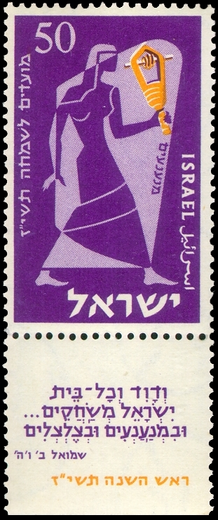 Joyous Festivals 5717 stamp - 50 mil - Jingle. Inscription on tab: "And David and all the house of Israel played ...and on psalteries, and on timbrels..." II Samuel, VI, 5.